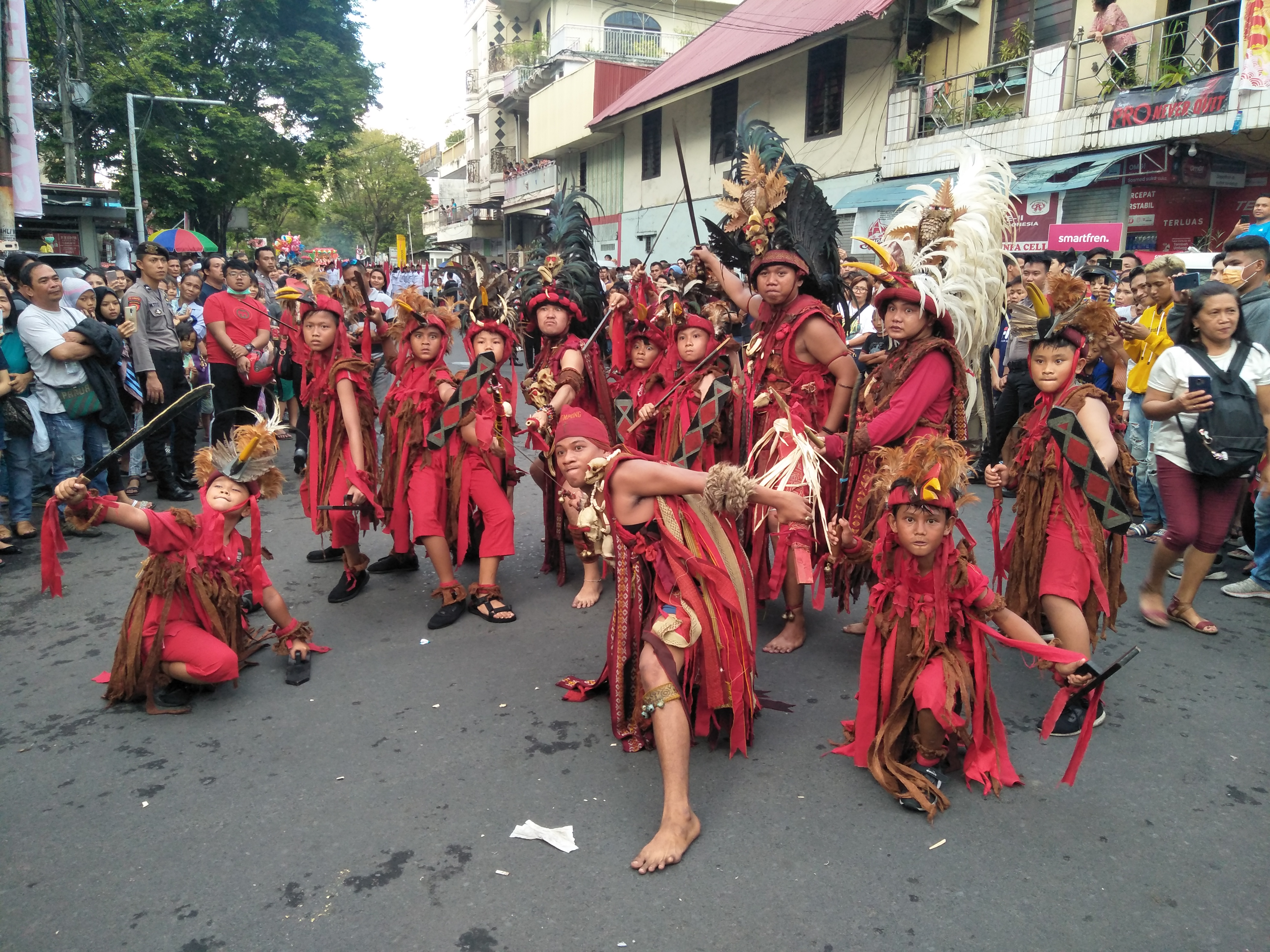 penari kabasaran minahasa